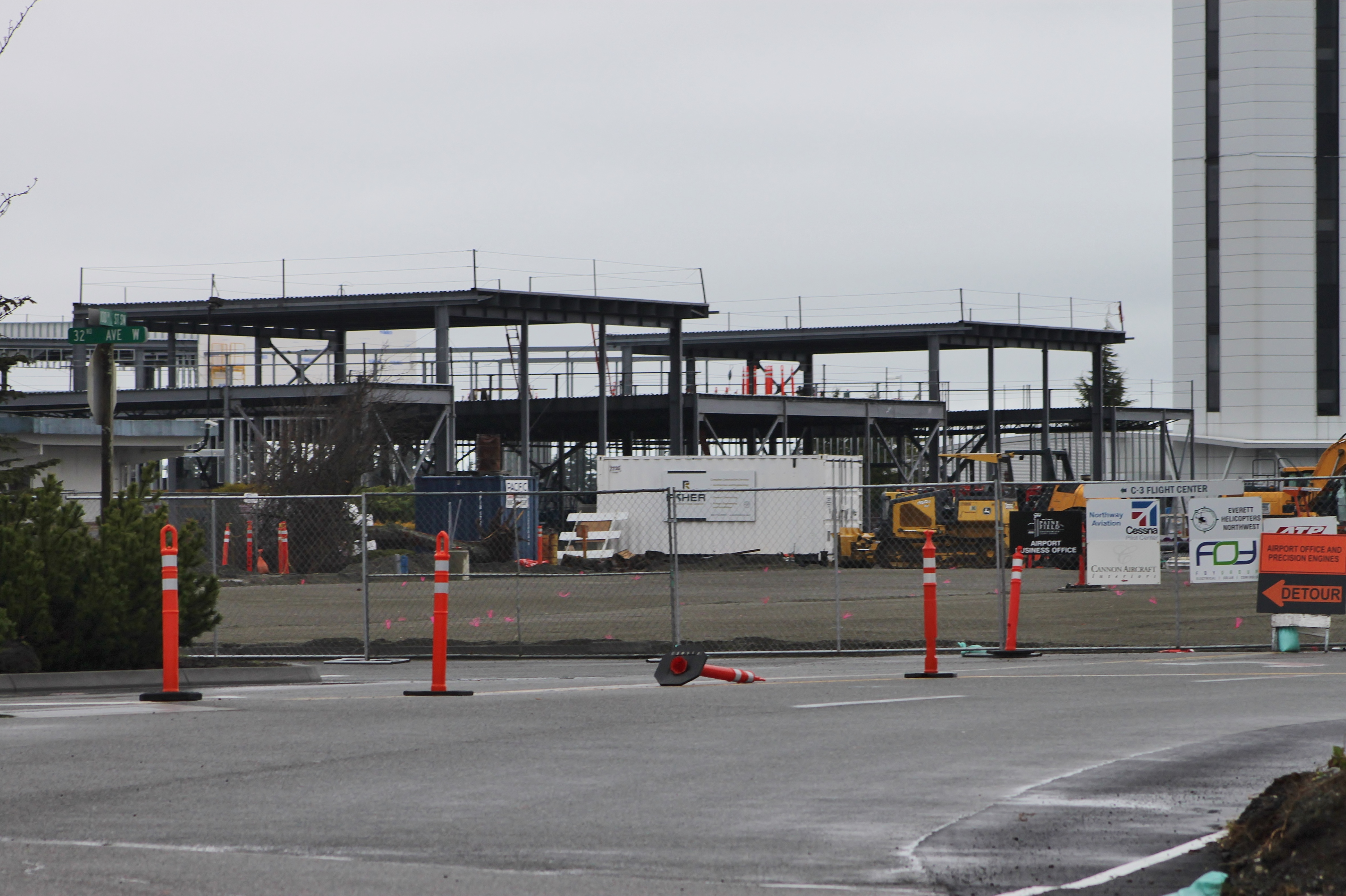 The passenger terminal at Paine Field in Everett, Washington, seen under construction in early 2018.